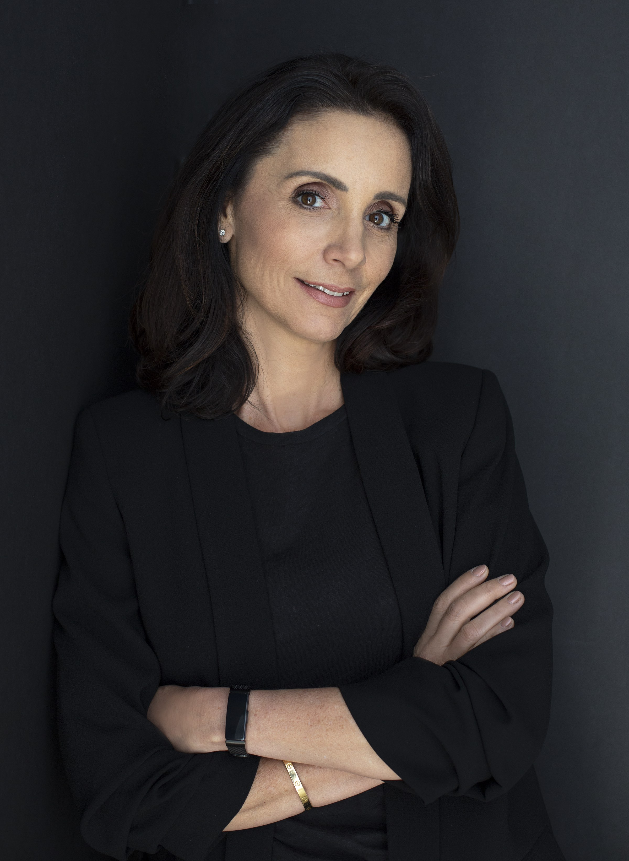 Geraldine Le Meur